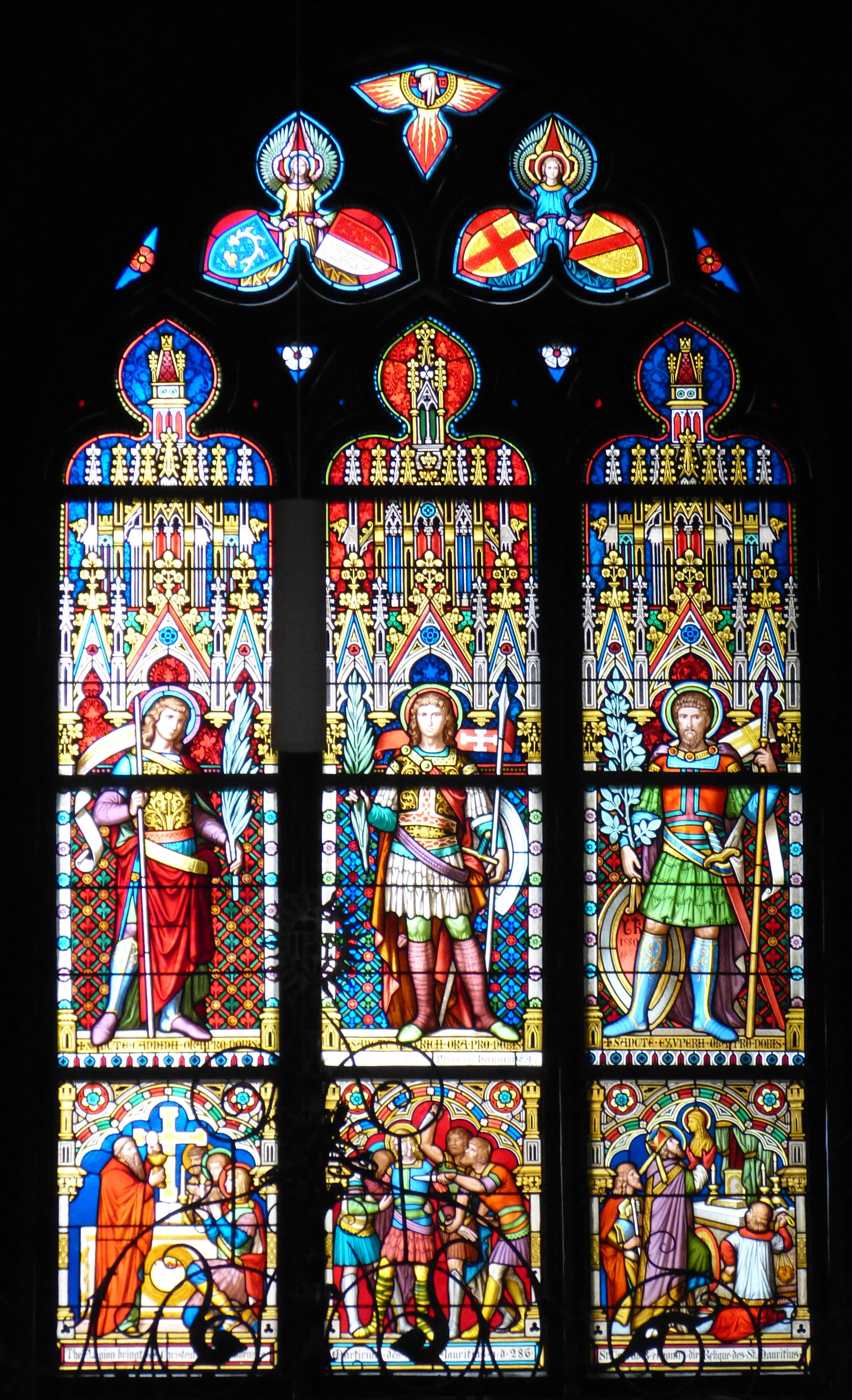 Konstanz ( Baden-Württemberg ). Minster - Stained glass window ( 1880 ) of Saints Candidus, Mauritius an Exuperius as martyrs of the Theban Legion..